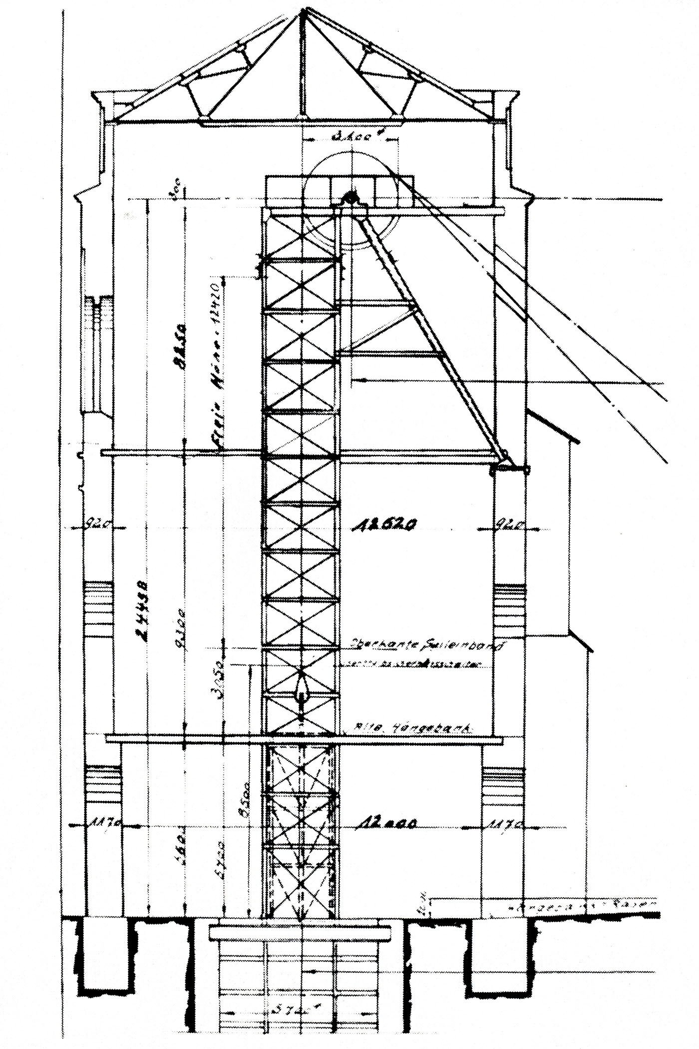 Sketch of construction of Malakow tower Julius Philipp, Bochum, Germany